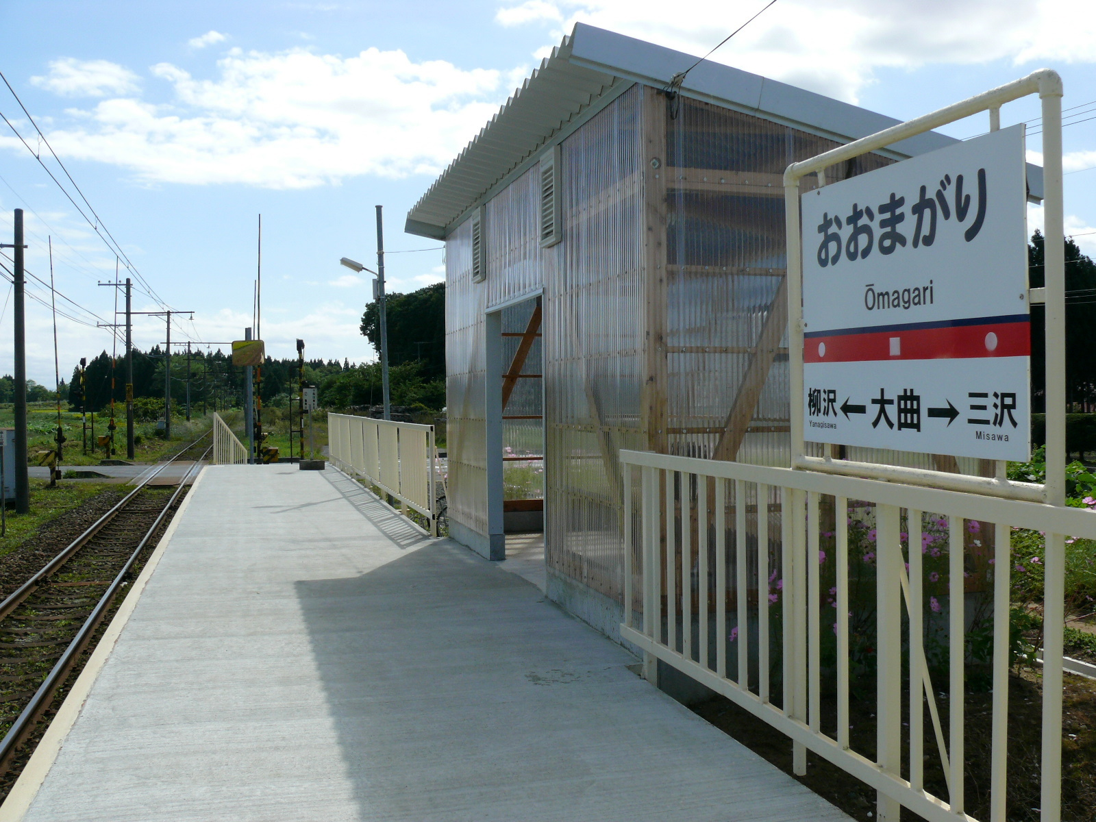 Towada Kanko Electric Railway Omagari Station,Aomori,Japan.